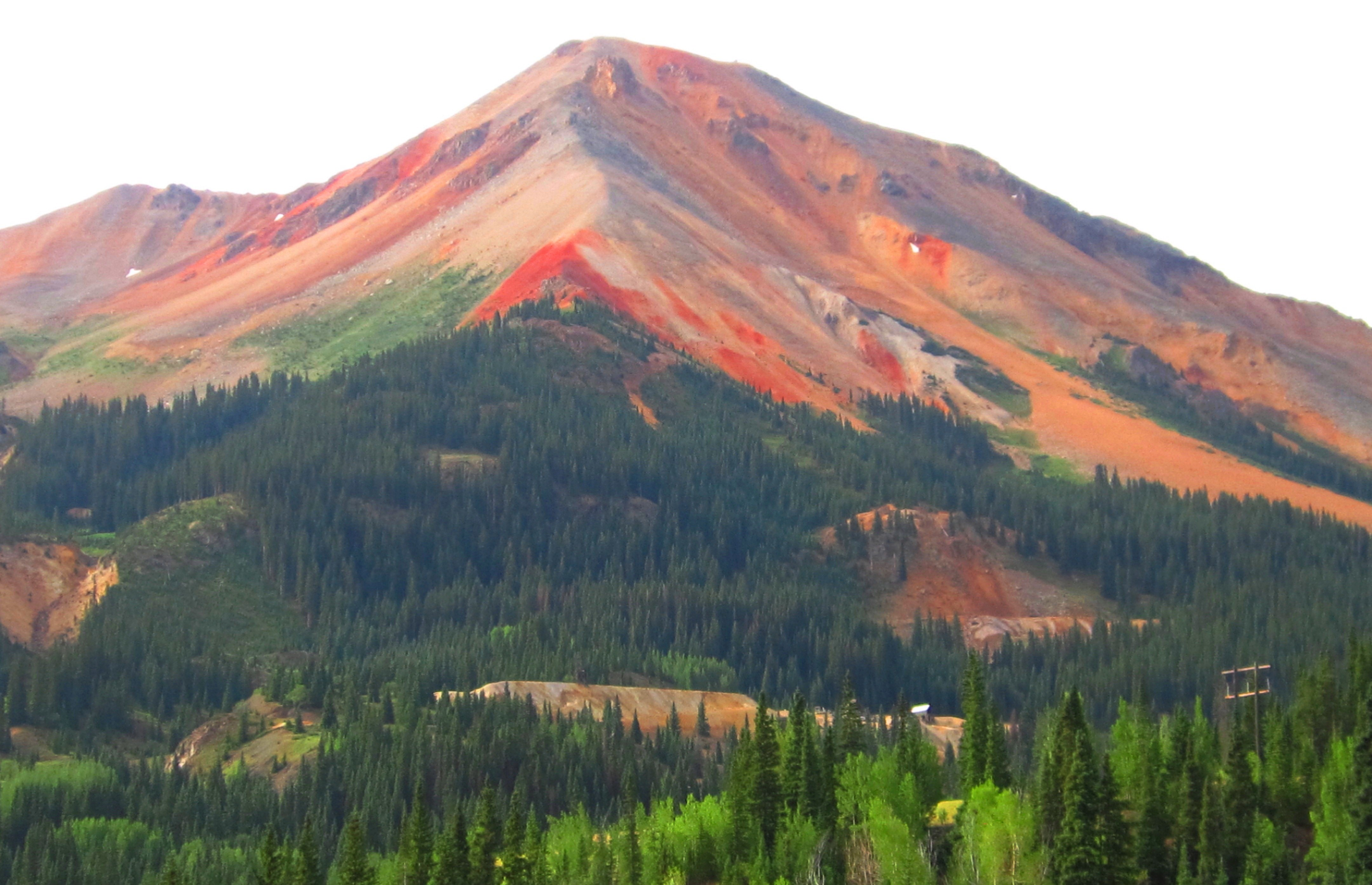 Red Mountain Colorado